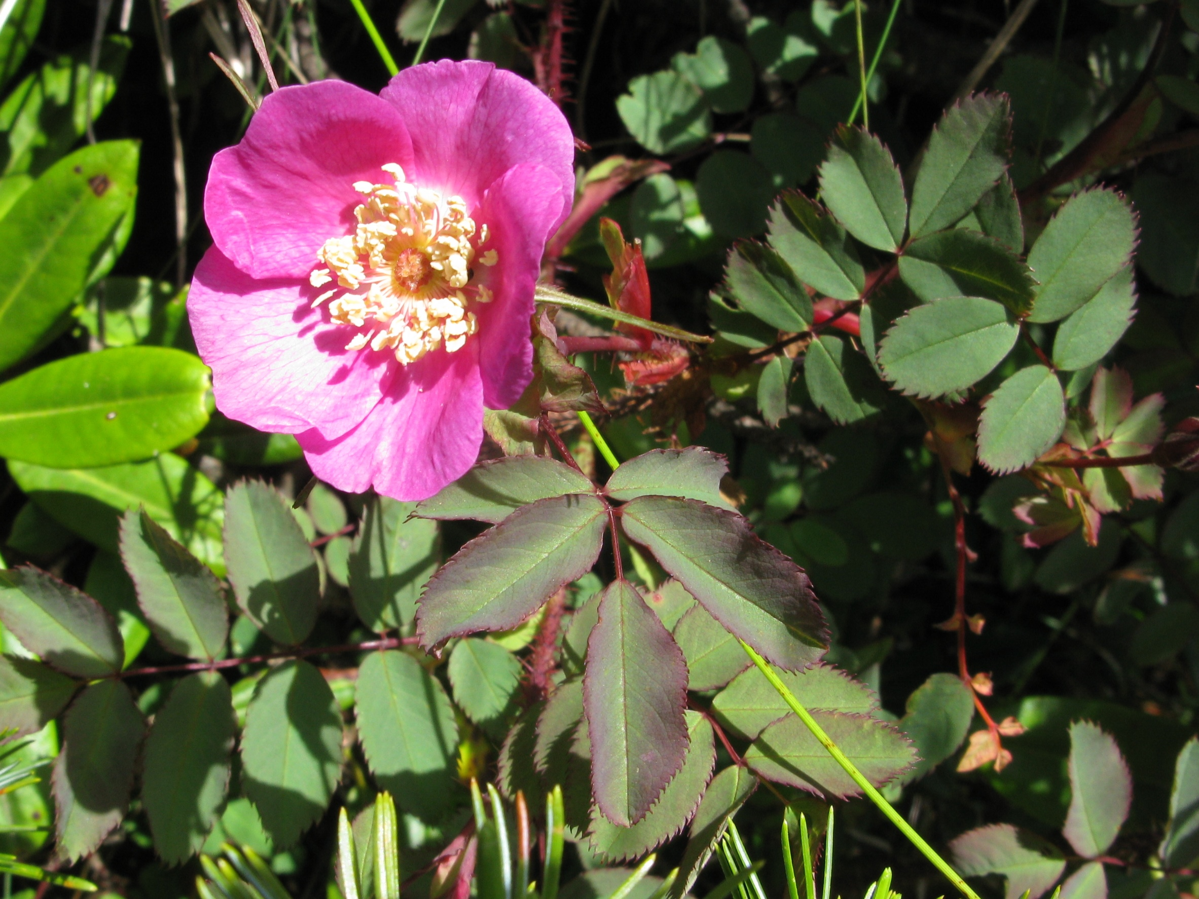 Rosa nipponensis, Mount Shibutsu, Gunma pref., Japan